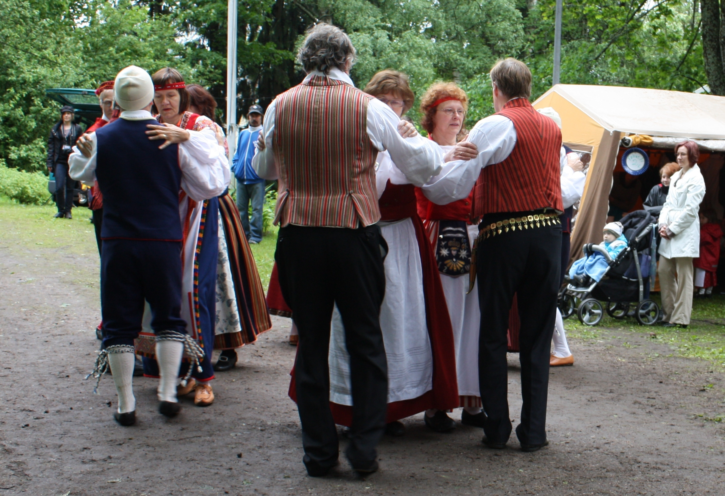 Folk dancing on Kerava Day 2010.